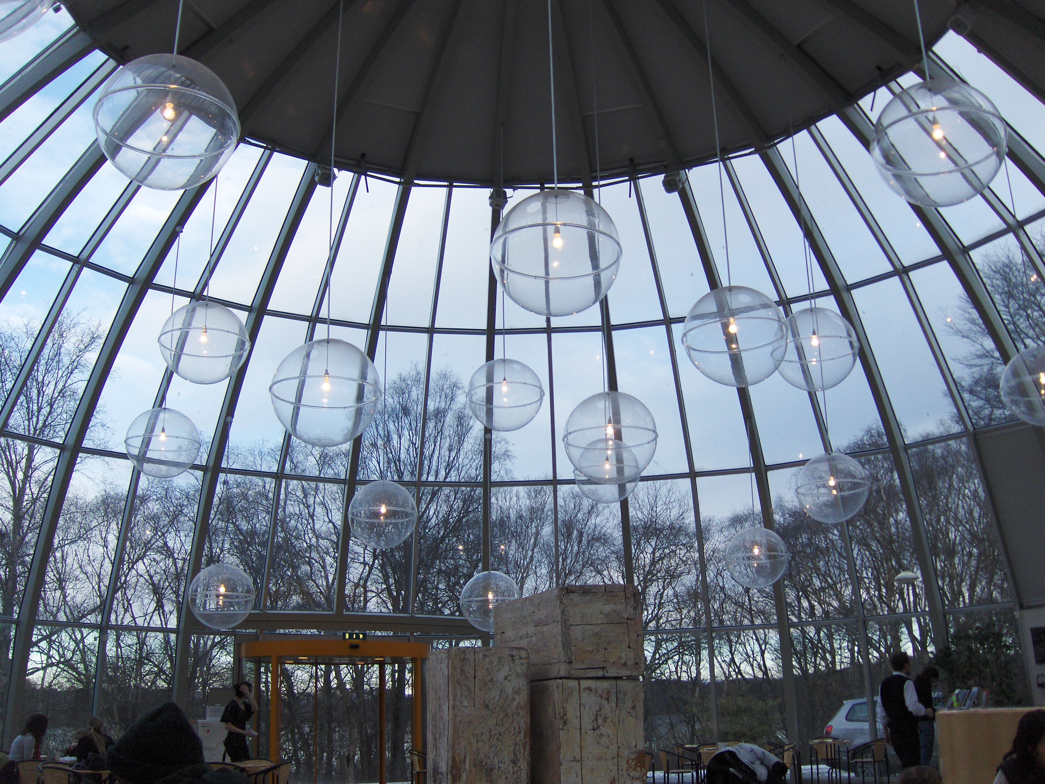 entrance of The Art Museum Of Rogaland